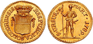 Switzerland, Solothurn. AV Quarter Duplone (1.92 g). Dated 1789. RESPUBLICA SOLODORENSIS, crowned coat-of-arms S URSUS MART 1789, military saint standing facing, holding banner. Friedberg 393; KM 55; SM 99a.